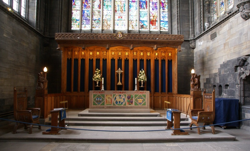 Paisley Abbey, Paisley, Renfrewshire, Scotland. Choir with communion table.